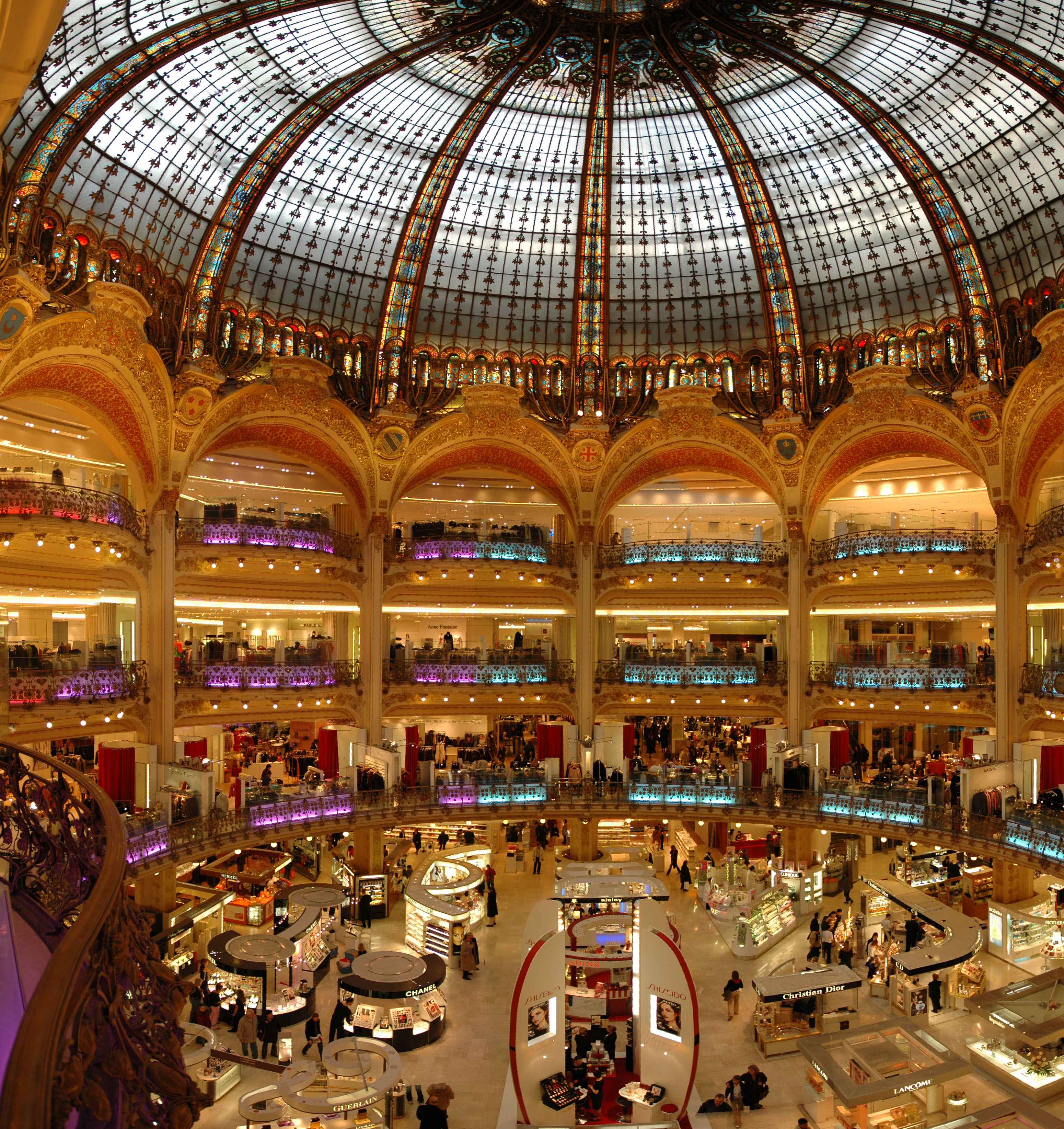 Galeries Lafayette in Paris (Avenue Haussman)